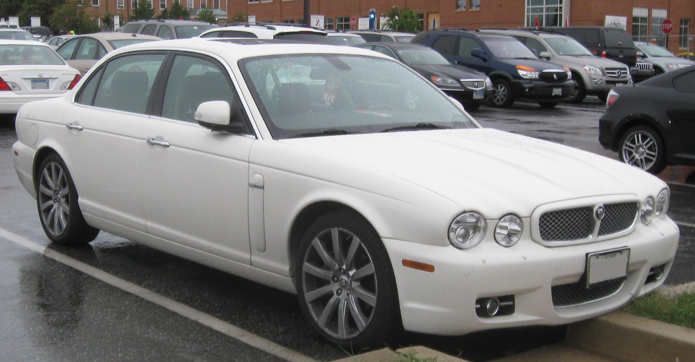 Jaguar XJ8 Vanden Plas photographed in College Park, Maryland, USA.